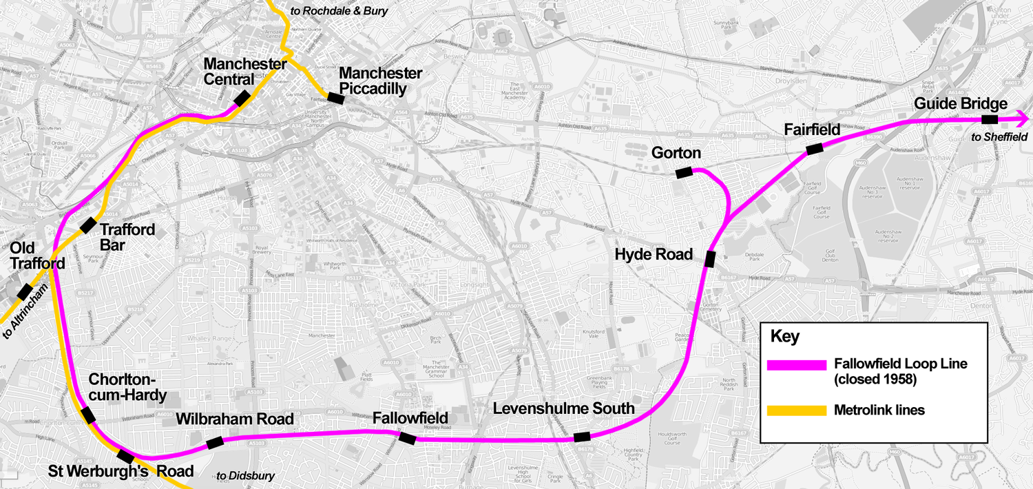 Map of the Fallowfield Loop Line between Guide Bridge and Manchester Central in Manchester, UK, which closed to passengers in 1958, along with the newer Manchester Metrolink lines This map may be incomplete, and may contain errors. Don't rely solely on it for navigation.